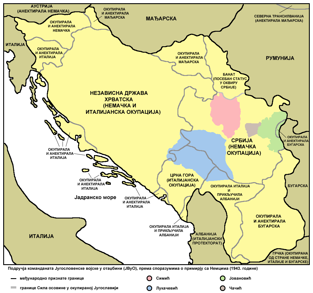 Areas of the Yugoslav Army in the Fatherland (JVuO) commanders, according to the truce treaties with the Germans (as of 1943).